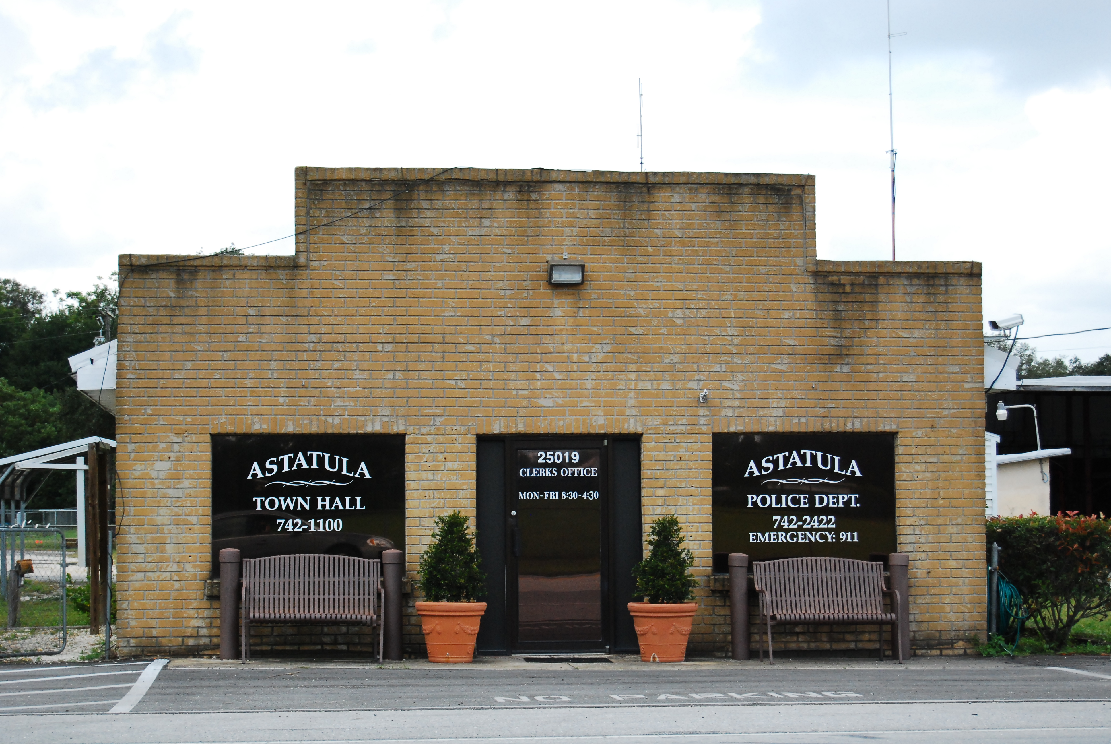 Astatula City Hall